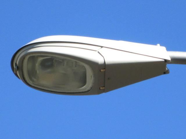 History of street lighting - ARK Lighting - Model (A)604F - Full cutoff version found in Revere, MA at Wonderland Station